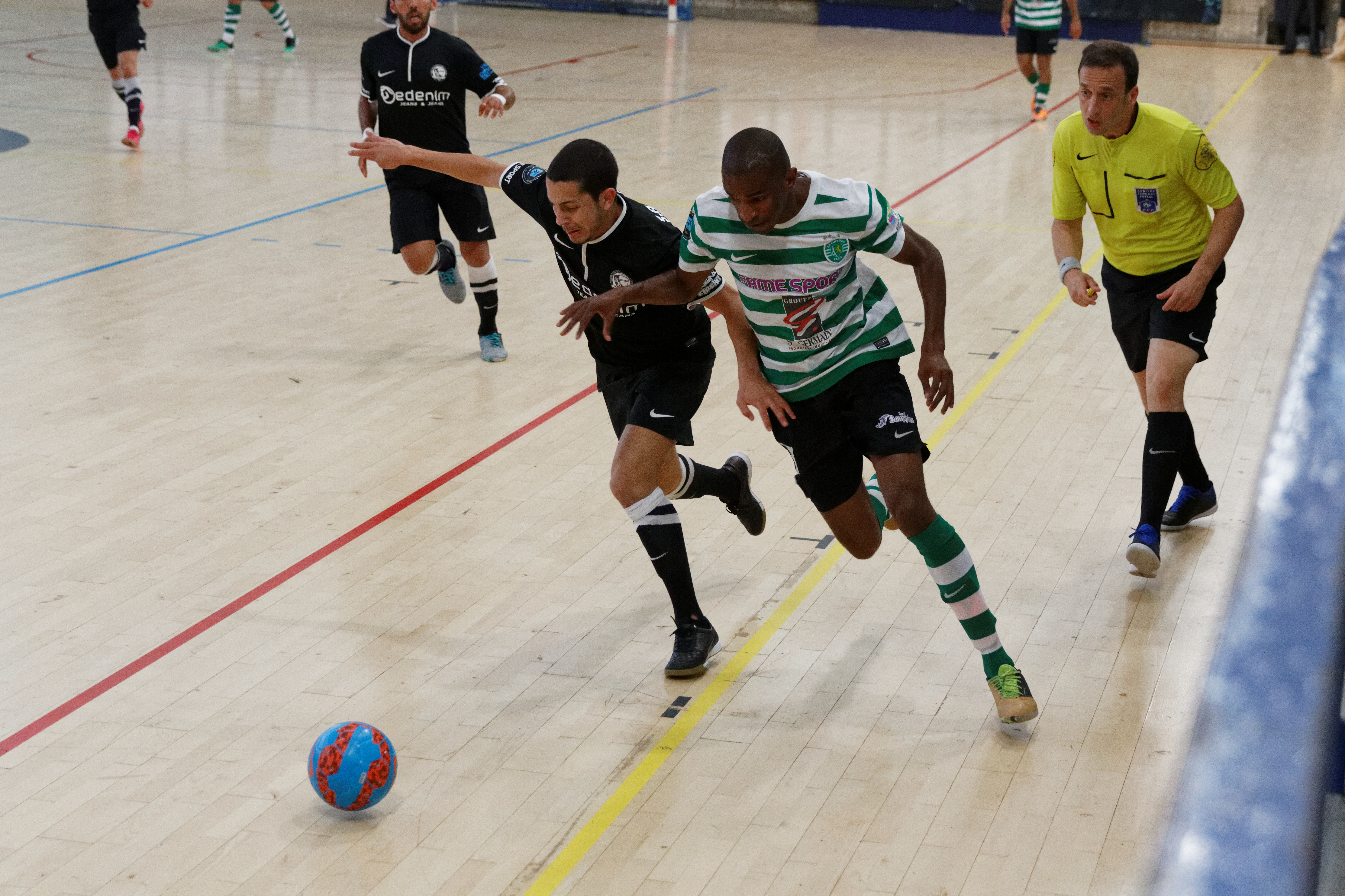 France futsal championship. Play-off. Sporting Club de Paris vs Kremlin-Bicêtre United.